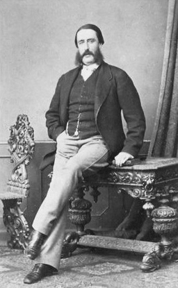 Resat bey, member of the Young Ottomans